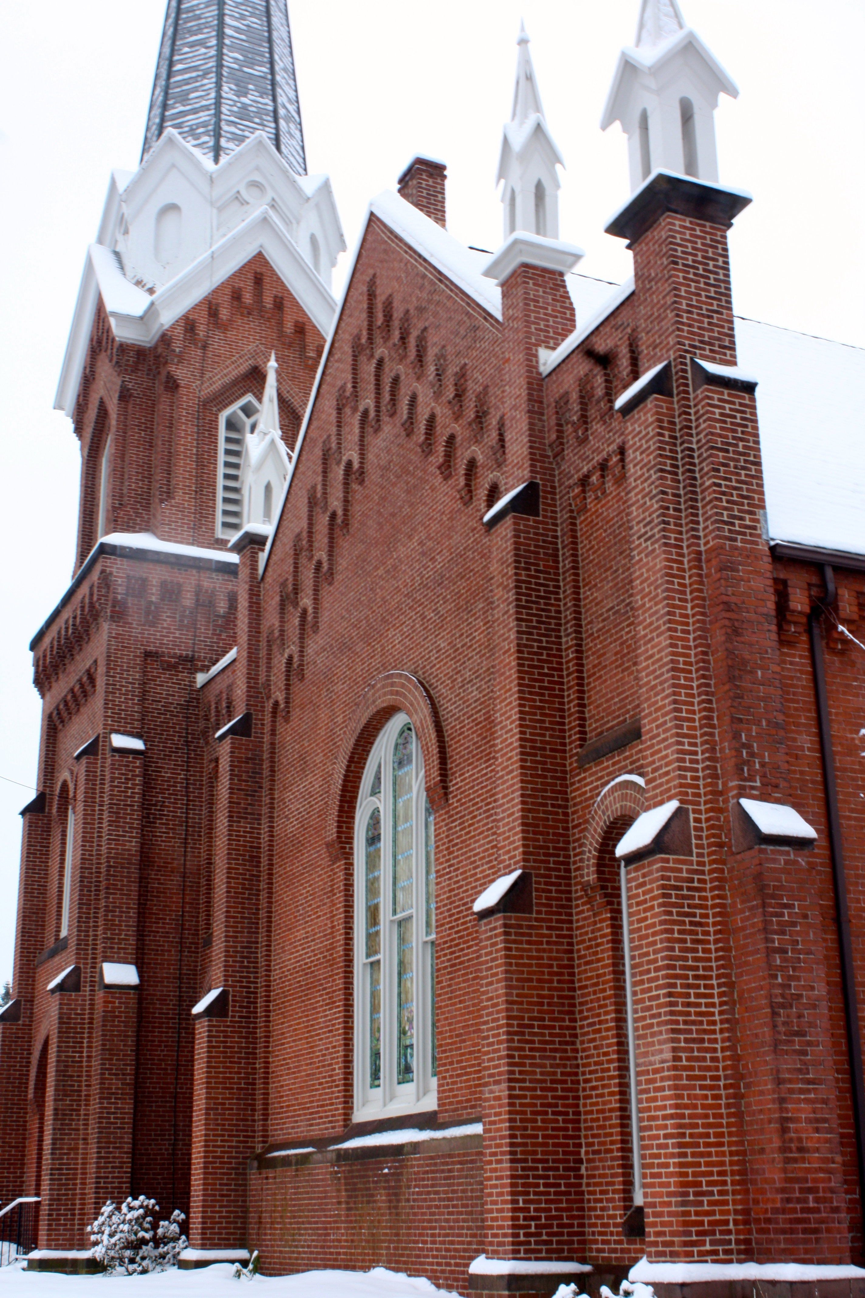 CT NRHP #82